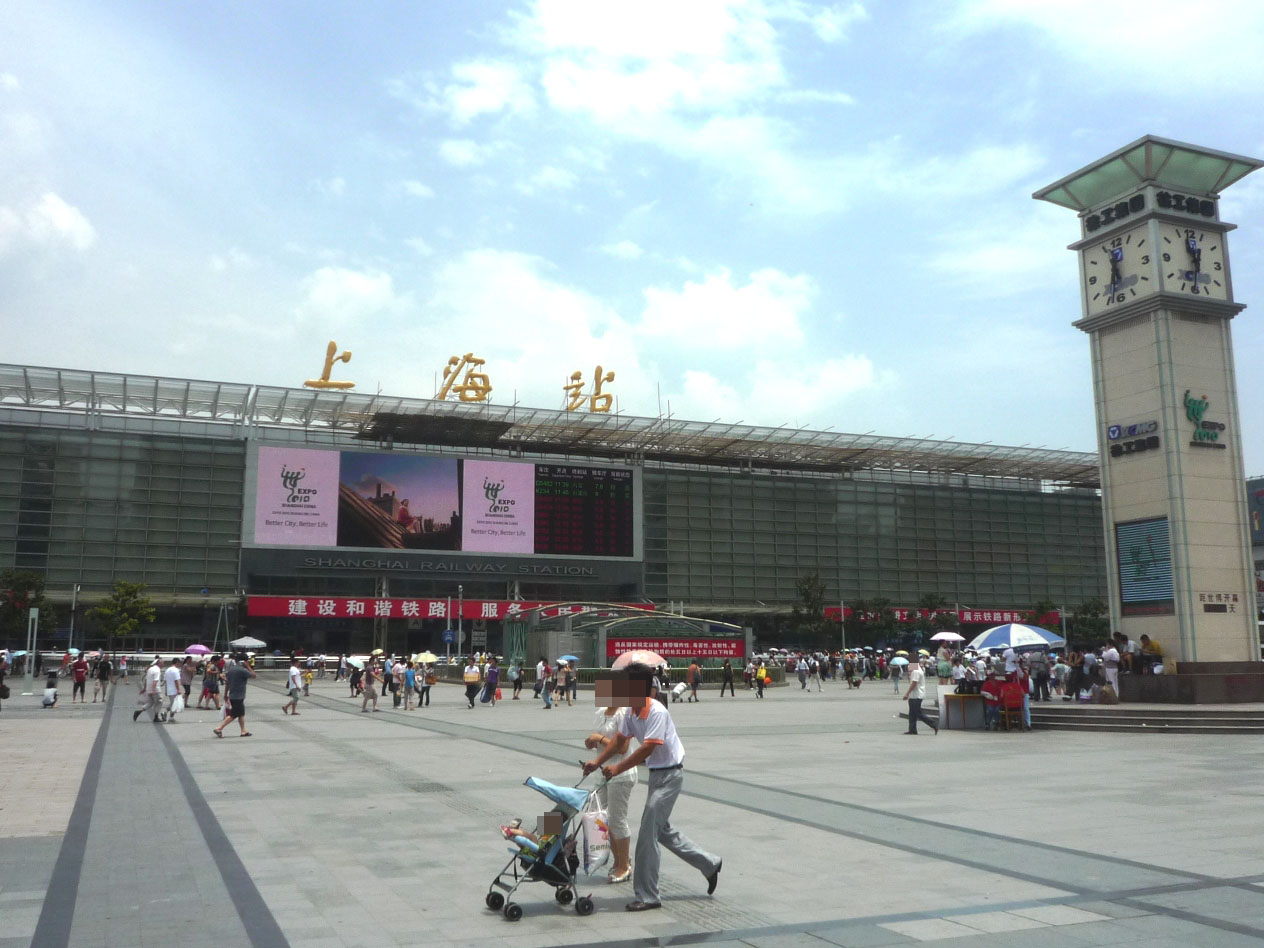 Shanghai Railway Station south side plaza in Zhabei, Shanghai, China. It looks like airport terminal building, and huge monitor is equipped on the building, constantly displaying timetable or advertisement. In this picture, timetable and advertisement of Expo 2010 Shanghai China are displayed at the same time. The photo taken by Bergmann in 21 July 2009, the day before Solar eclipse.